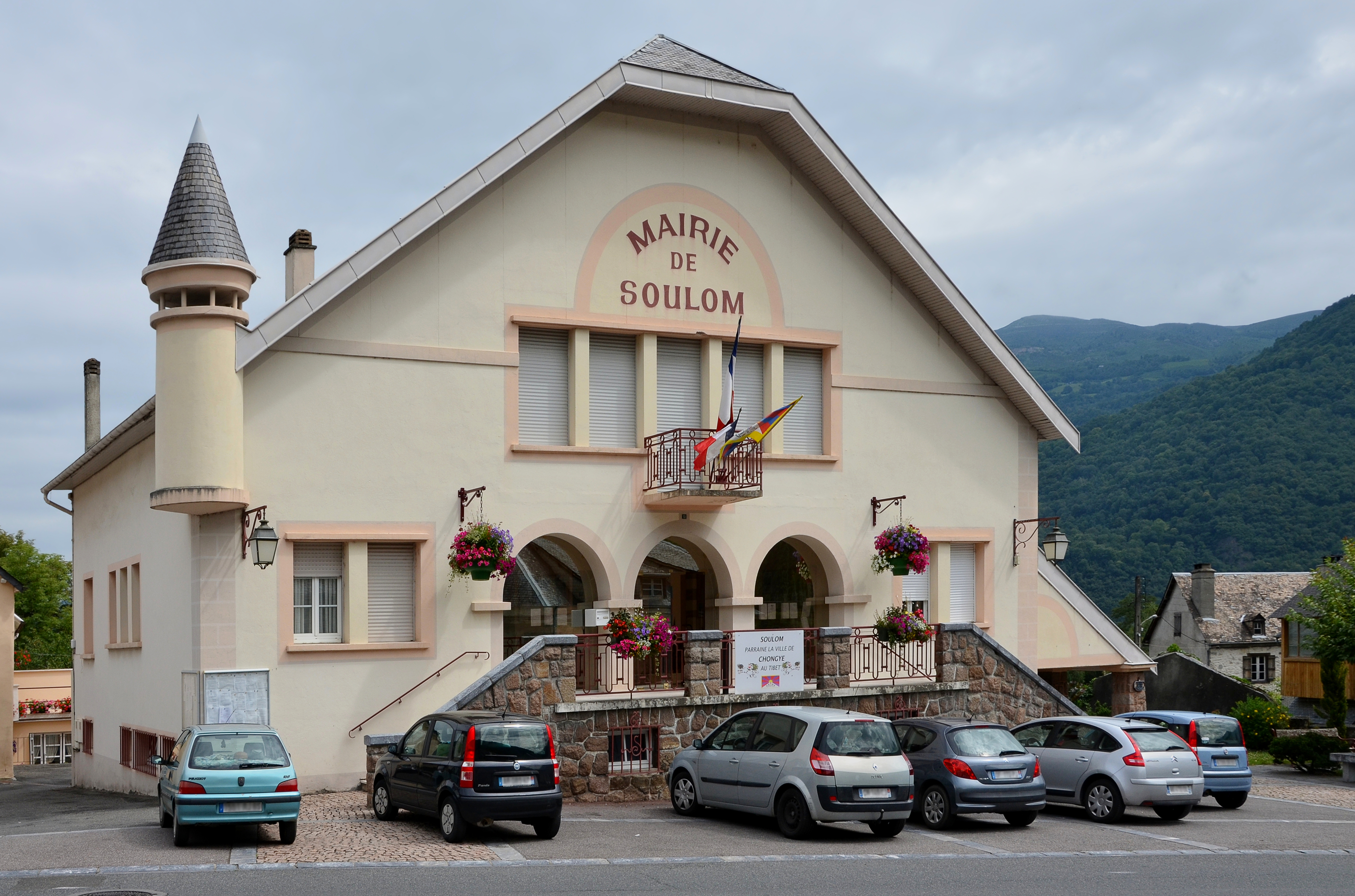 Townhall of Soulom, Hautes-Pyrénées, France.